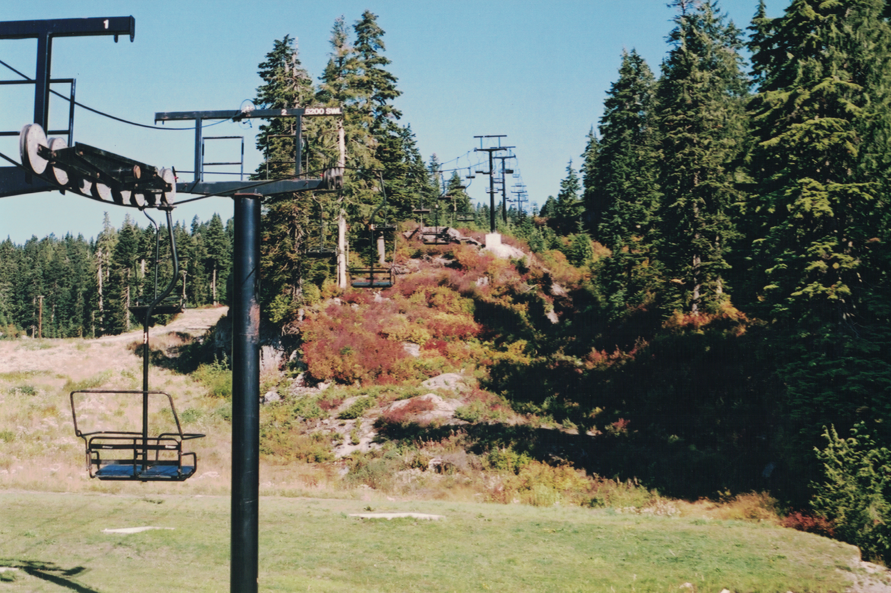 The old Mystery Peak chairlift at Mount Seymour, British Columbia. This chairlift was replaced with a high-speed quad in 2012. It was one of only a few chairlifts built by local company Murray Latta.